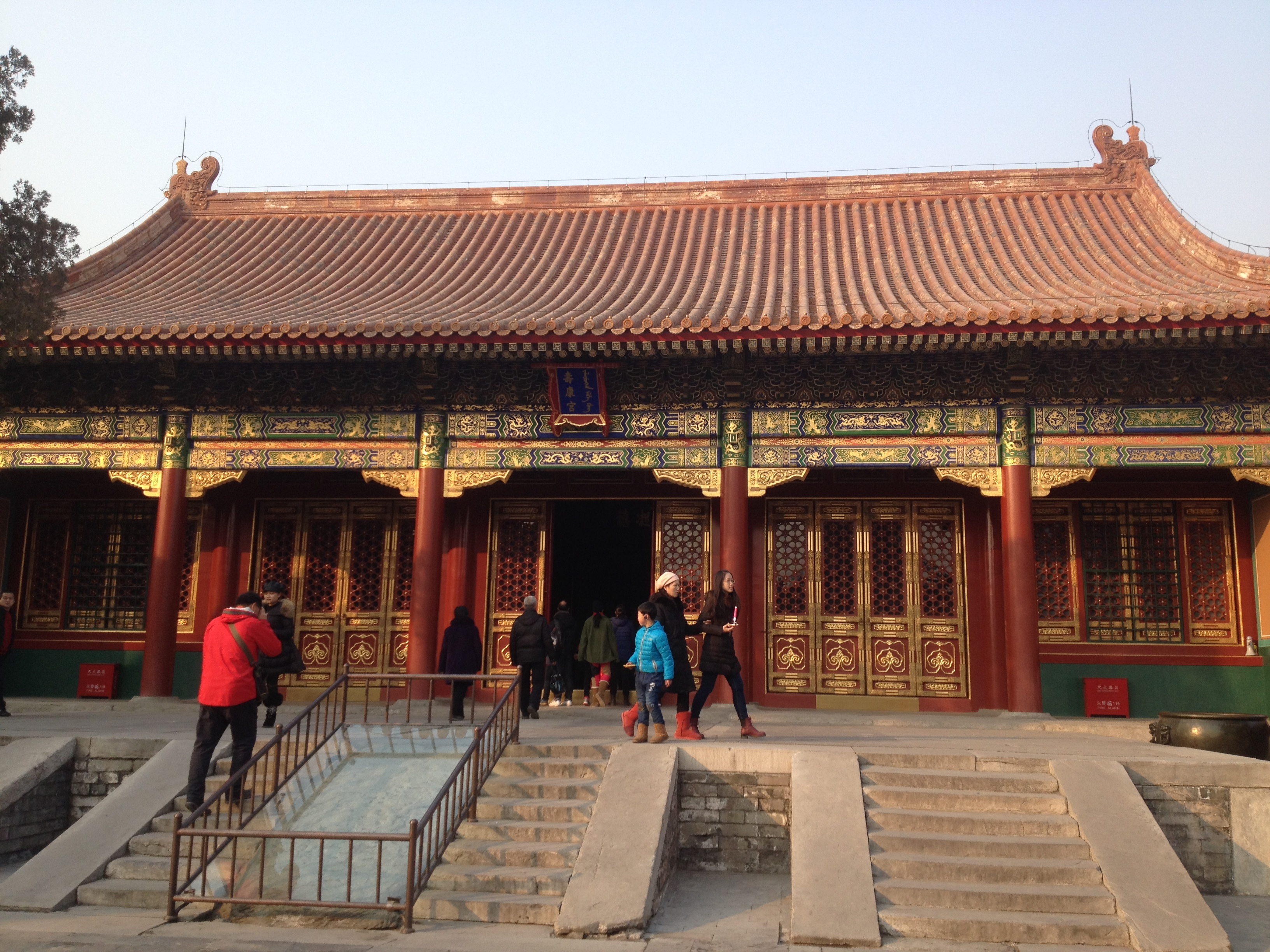 Palace of Longevity and Good Health (view N)